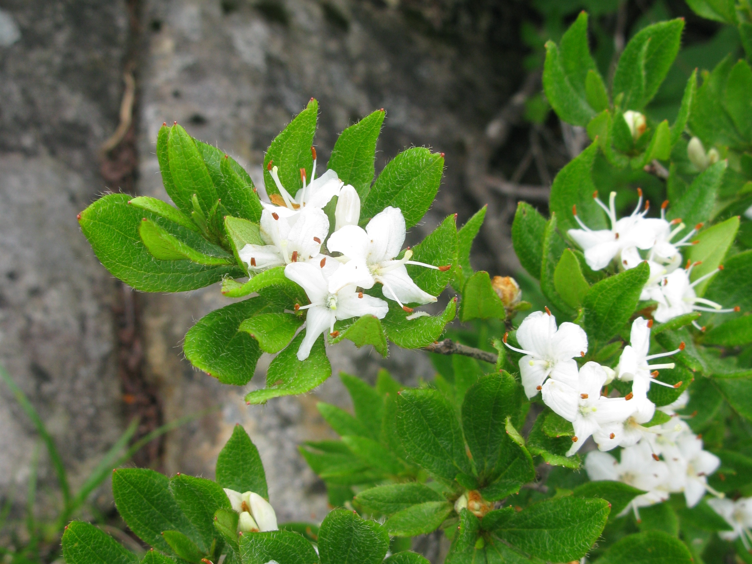 Rhododendron tschonoskii subsp. trinerve, Mt. Mikuni-dake, Fukushima pref., Japan